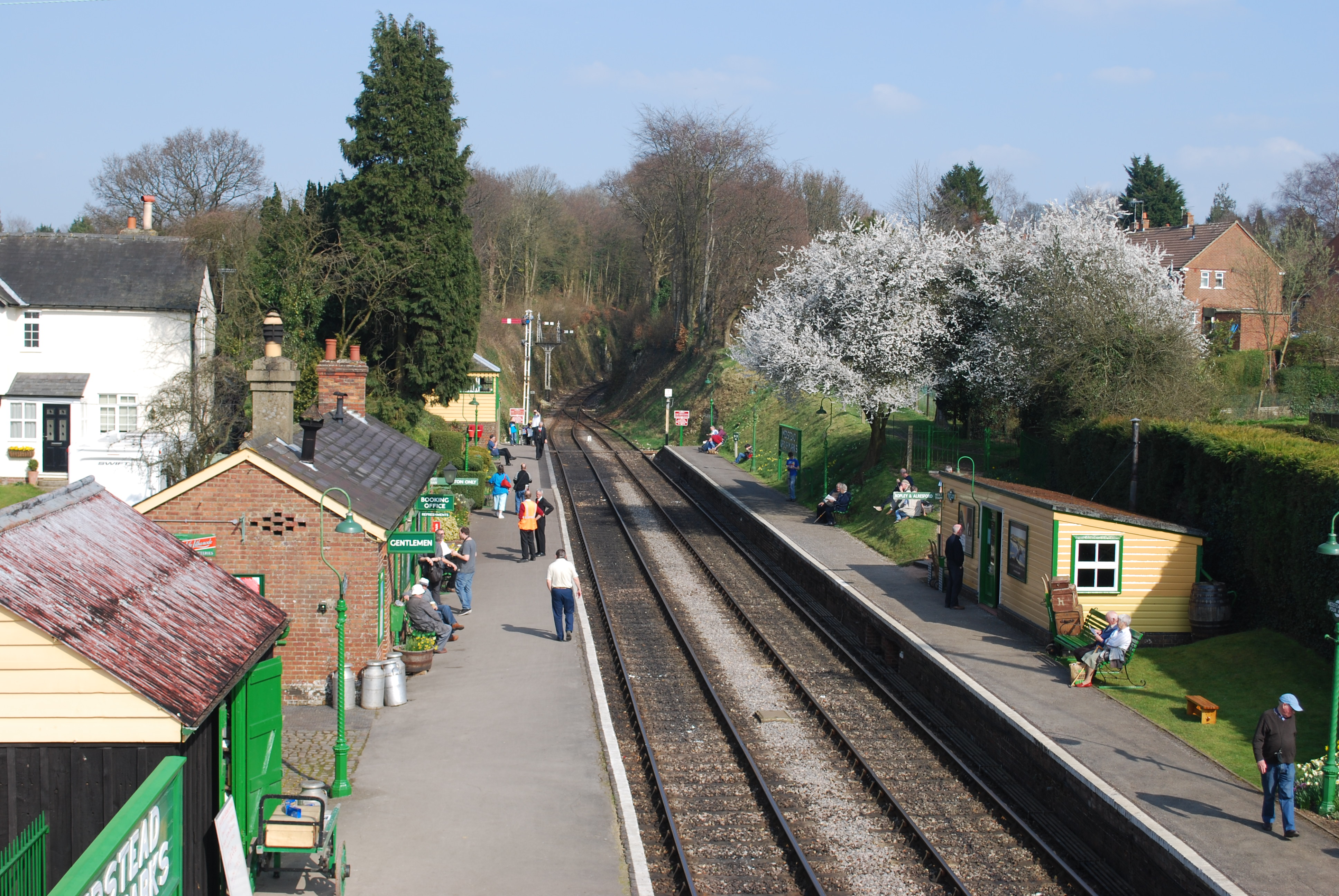 Watercress Line Steam Gala 2012